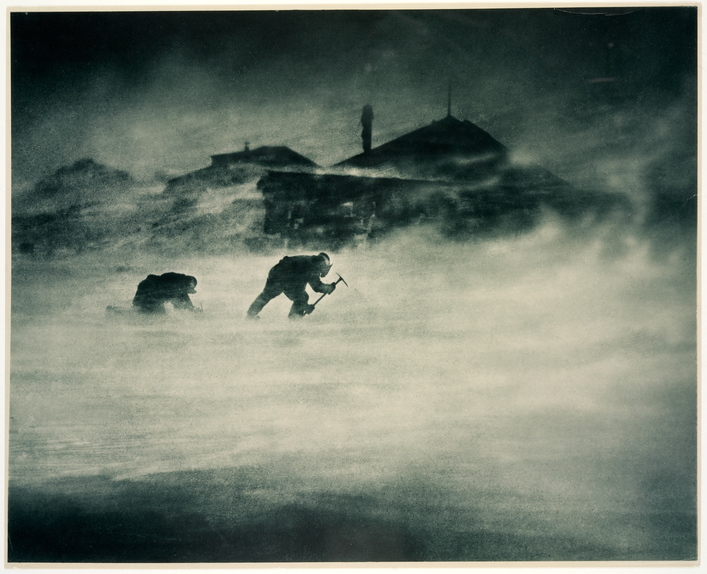 Format: Photograph Find more detailed information about this photographic collection: .au/item/itemDetailPaged.aspx?itemID=17845 From the collection of the State Library of New South Wales